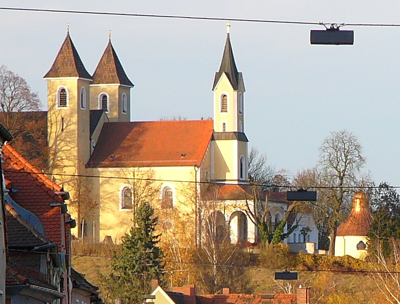 This is a photograph of an architectural monument.